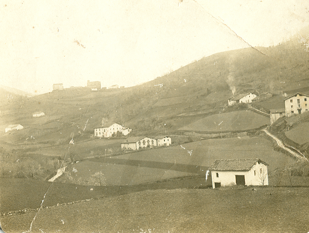 Alkiza from Kukutegi farm at beginning of XX century